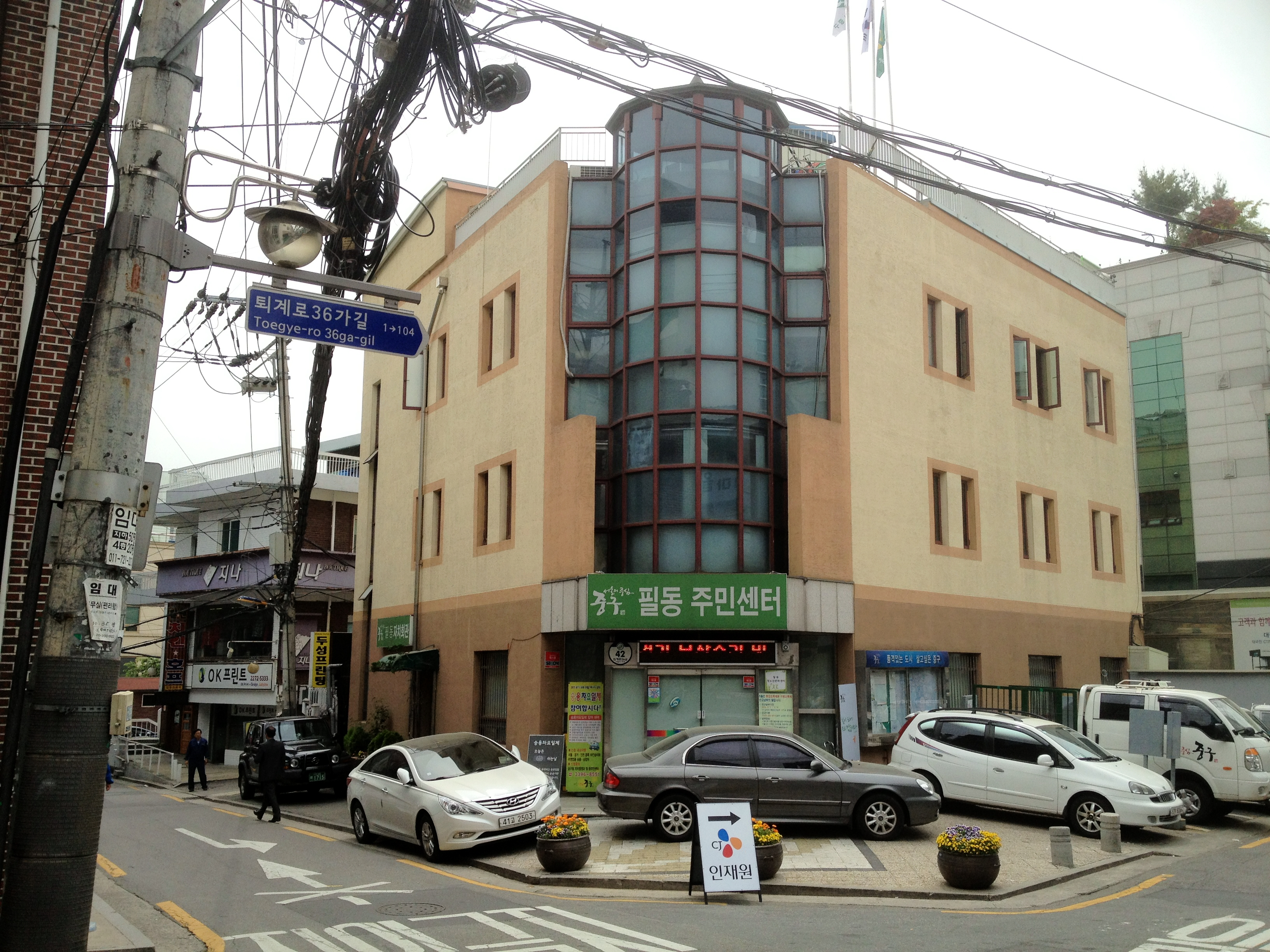 Pil-dong Comunity Service Center(Jung-gu)